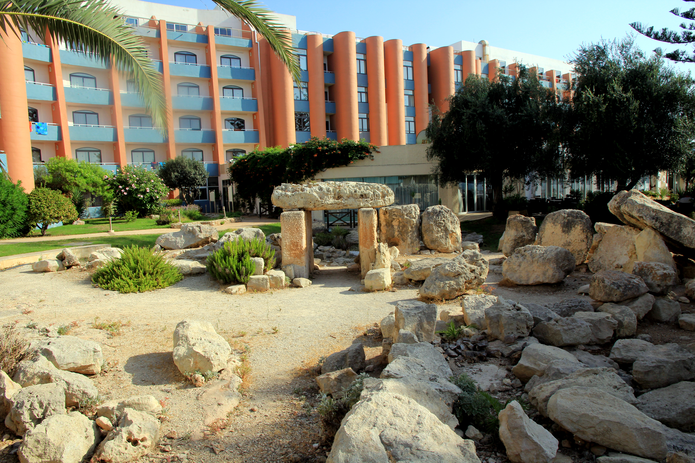 Dolmen in Hotel Dolmen Resort, Bugibba, Malta